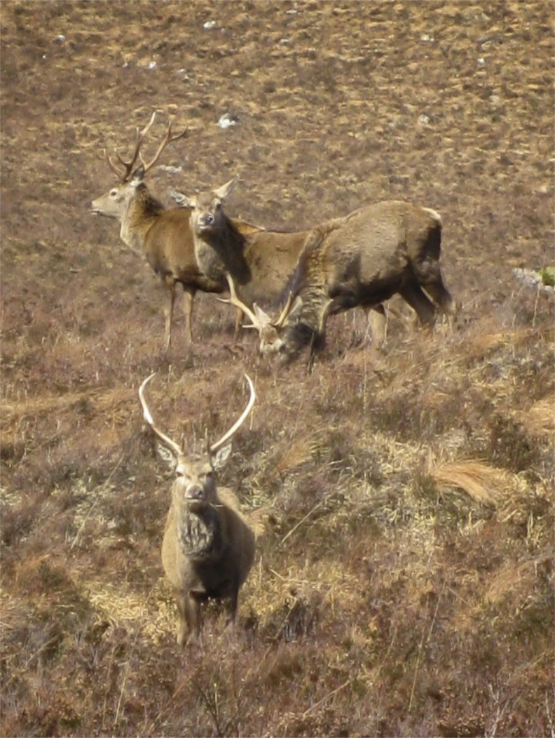 Torridon stags. Driving on the Wester Ross coastal route towards Ullapool from the Skye Bridge. This was taken around the Torridon area, which was probably my favourite stretch of the whole drive.